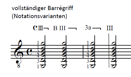 Barré notation possibilities (classical notation für guitar, full barré)